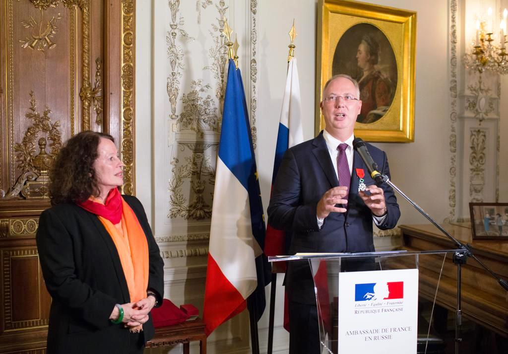 Kirill Dmitriev delivering a speach upon receiving the National Order of the Legion of Honour at the French Embassy in Moscow. Ambassador Sylvie-Agnès Bermann standing aside